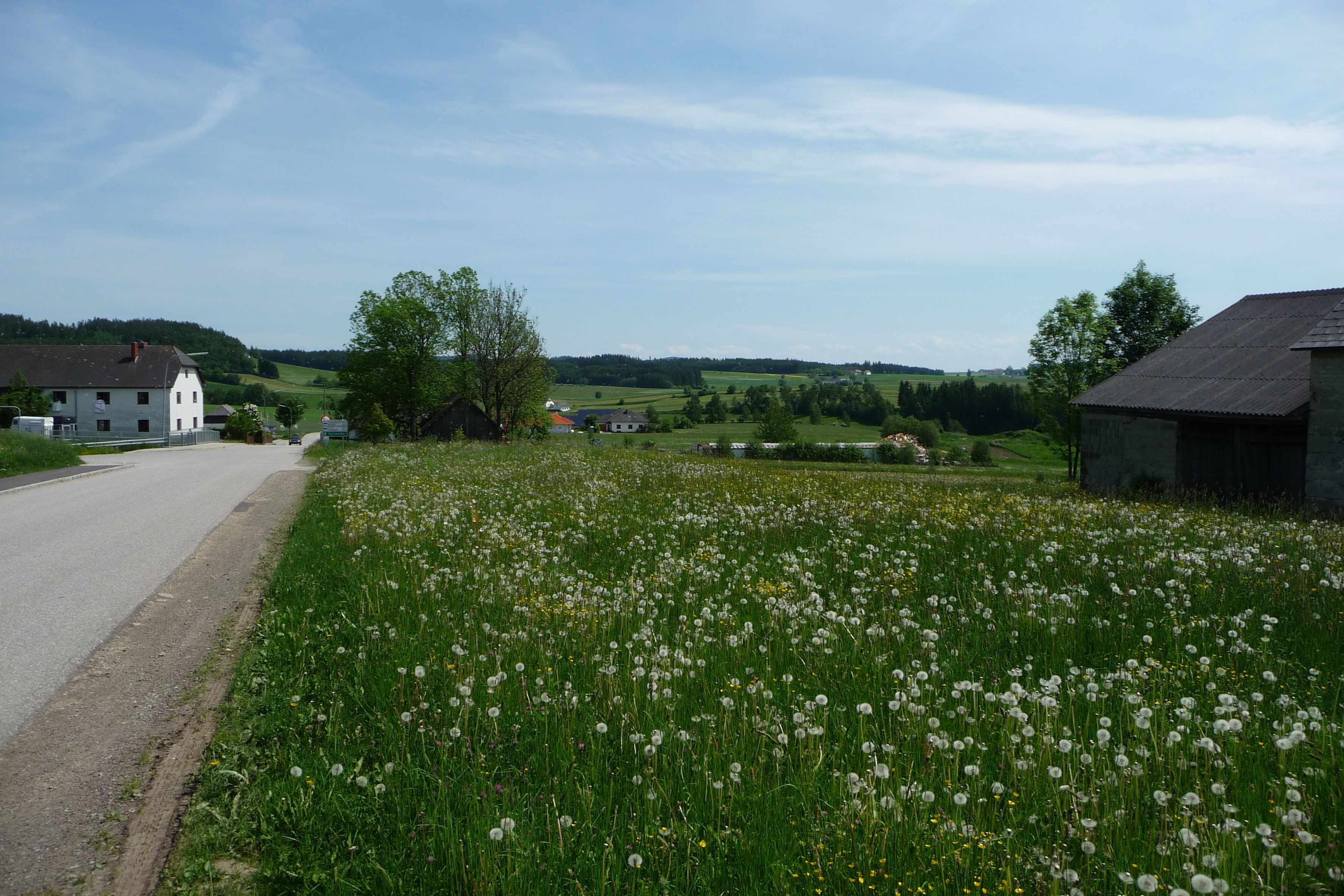 Landscape in the south-east of Bad Leonfelden